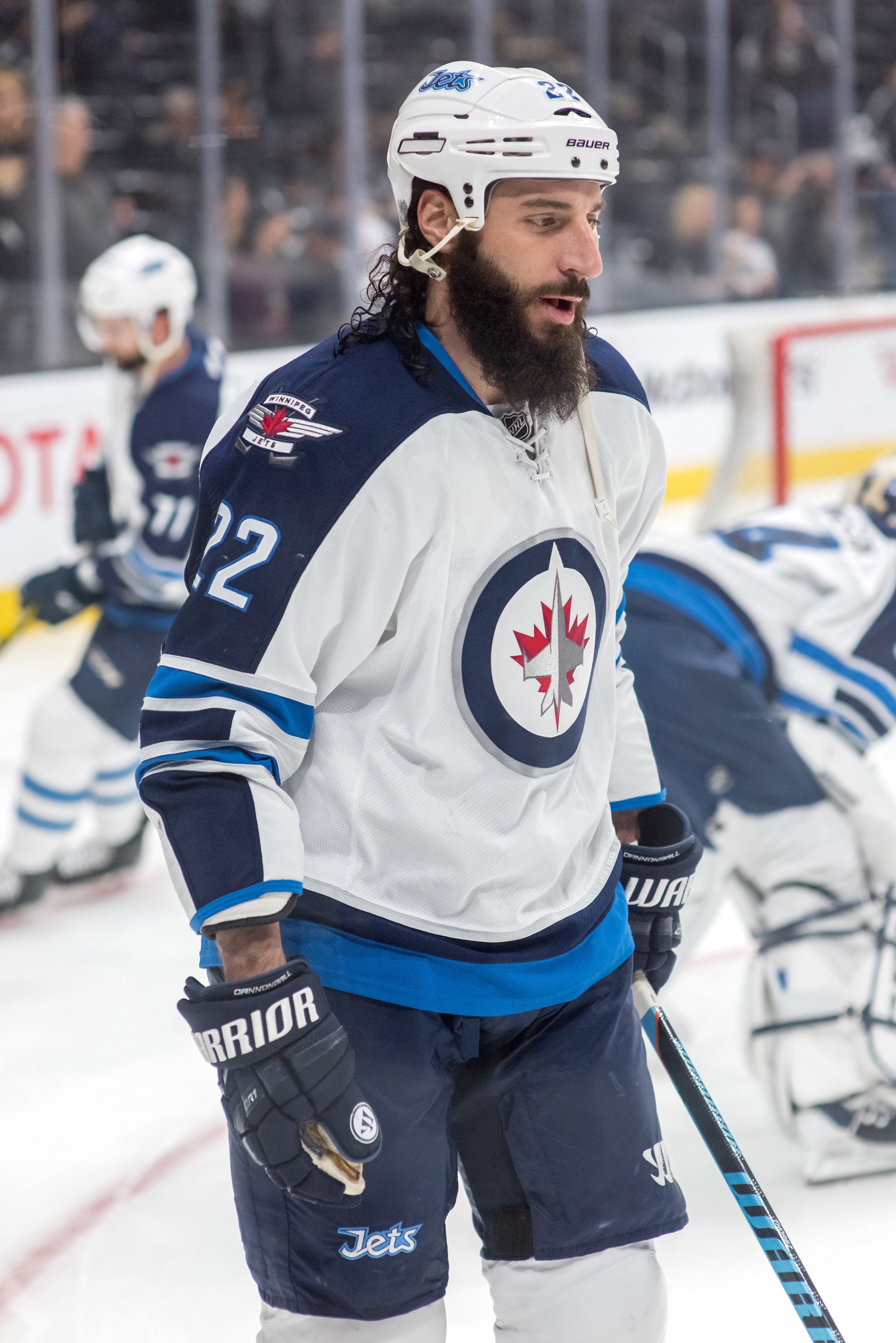 Chris Thorburn